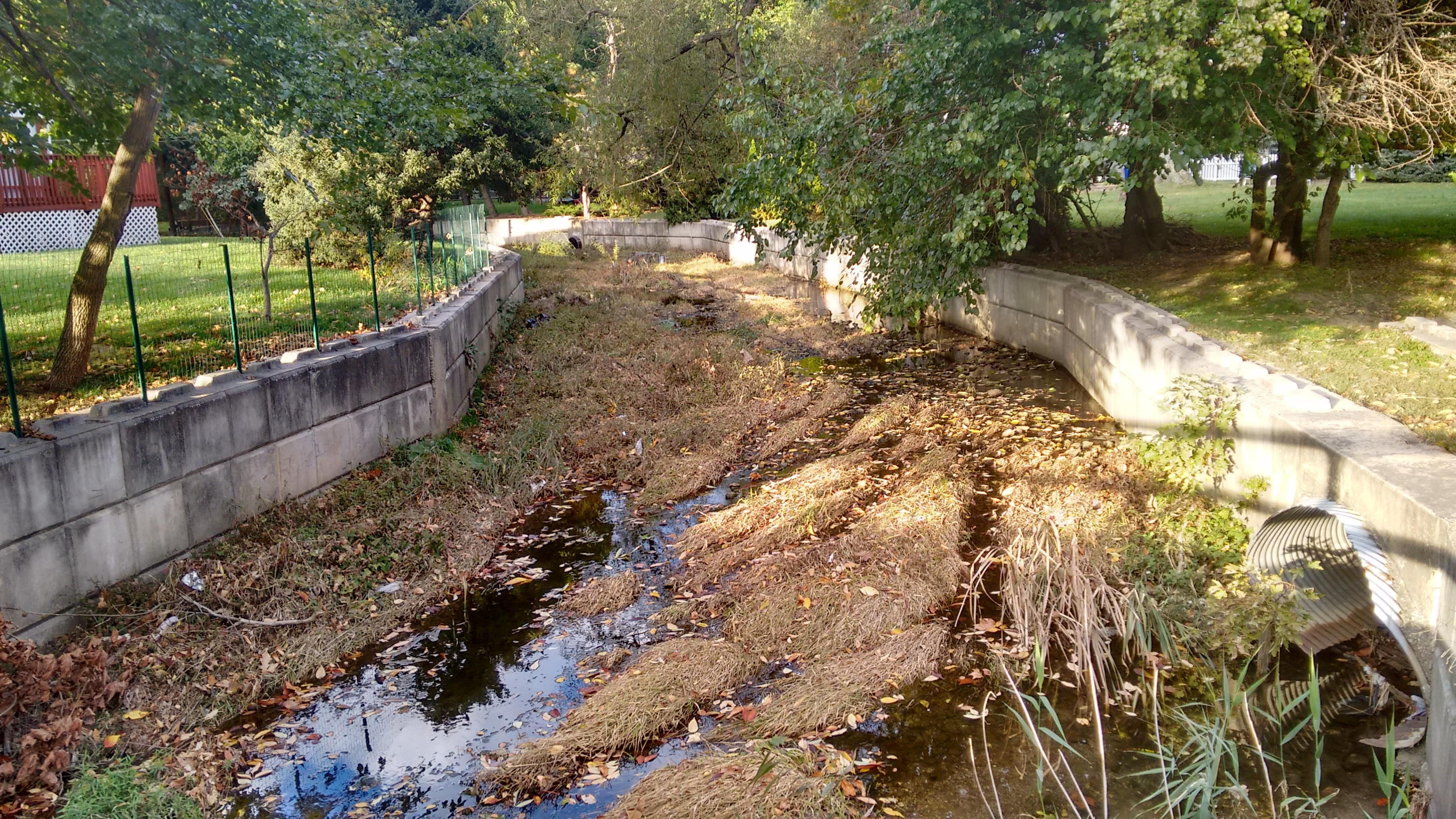 Muckinipattis Creek near Ashland Avenue in Glenolden Borough, Delaware County, Pennsylvania